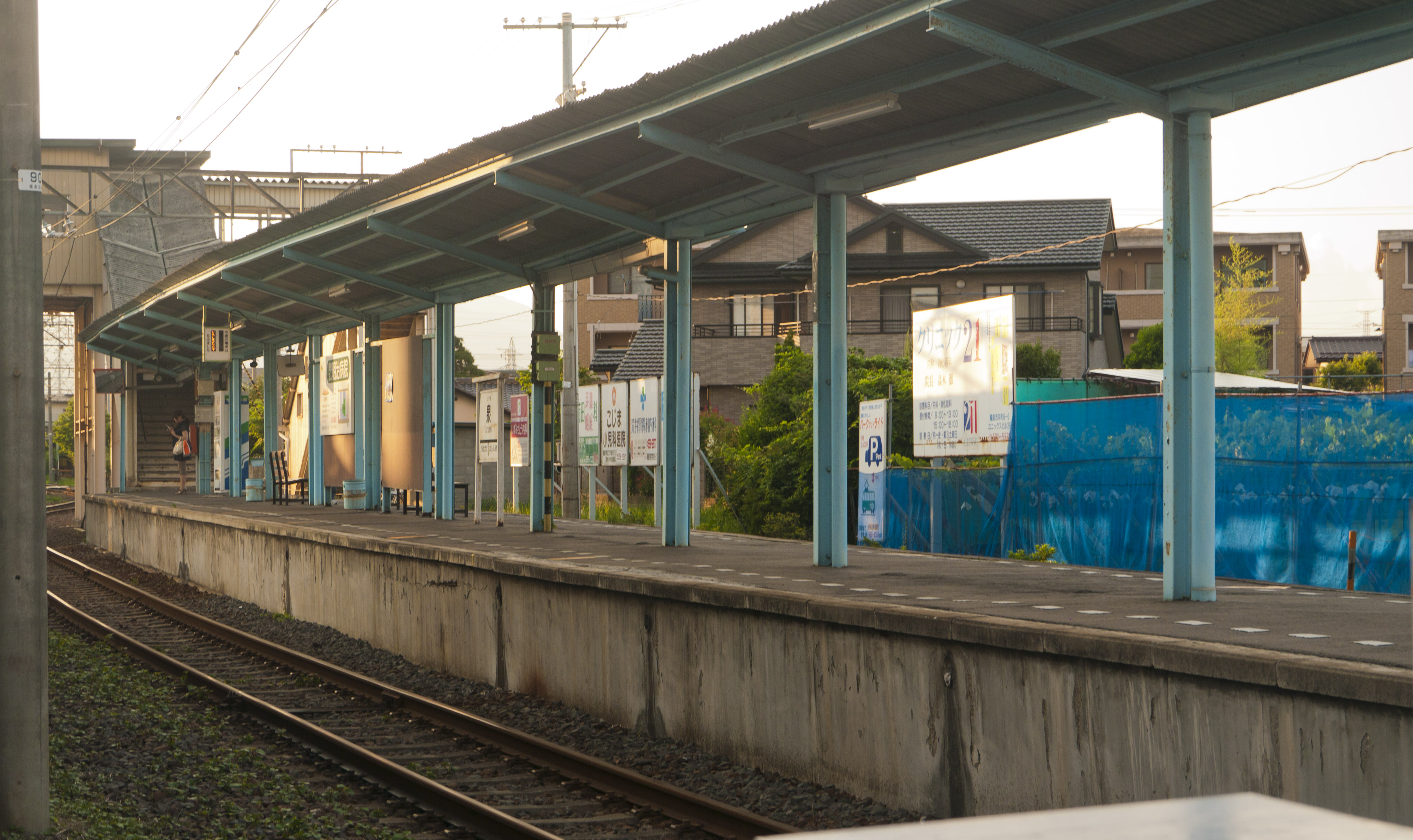 Fukushima Kotsu Iizaka Line Izumi Platform in Fukushima, Fukushima, Japan